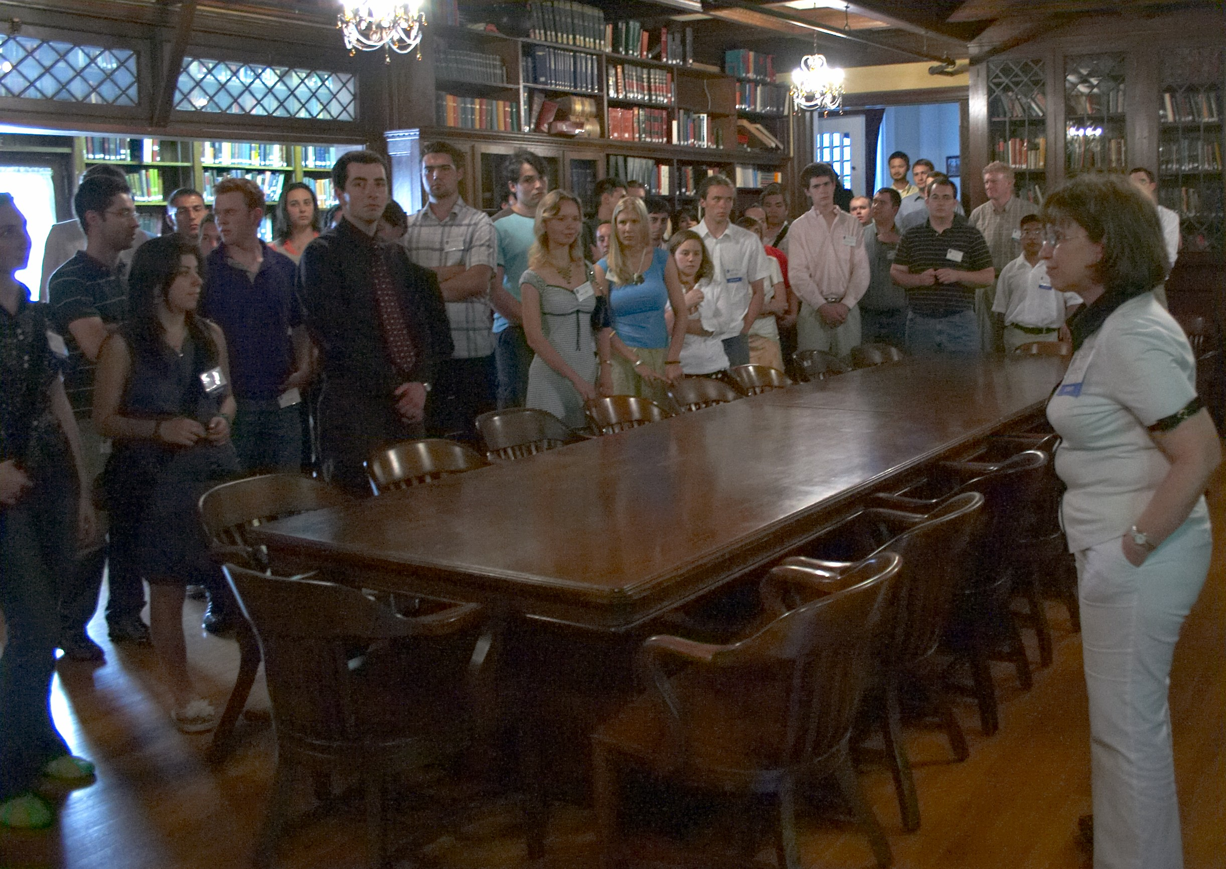 FEE library tour